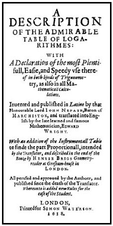 Title page of John Napier; Edward Wright (transl.) (1618) A Description of the Admirable Table of Logarithmes: With a Declaration of the Most Plentifull, Easie and Speedy Use thereof in both kinds of Trigonometry, as also in all Mathematicall Calculations. Invented and Published inn Latine by that Honourable Lord John Nepair, Baron of Marchiston, and translated into English by the late learned and famous Mathematician, Edward Wright. With an Addition of the Instrumentall Table to finde the part of the Proportionall, intended by the Translator, and described in the end of the Booke by Henrie Brigs Geometry-reader at Gresham House in London. All Perused and Approved by the Authour, and Published since the Death of the Translator. Whereunto is added New Rules for the Ease of the Student (2nd ed.), London: Printed for Simon Waterson